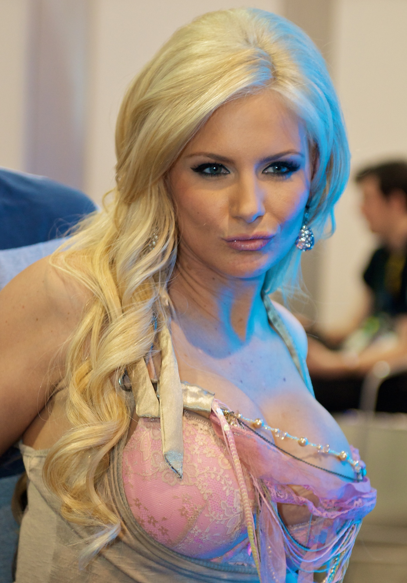 2011 AVN Adult Entertainment Expo (AEE) - Las Vegas Sands Center.